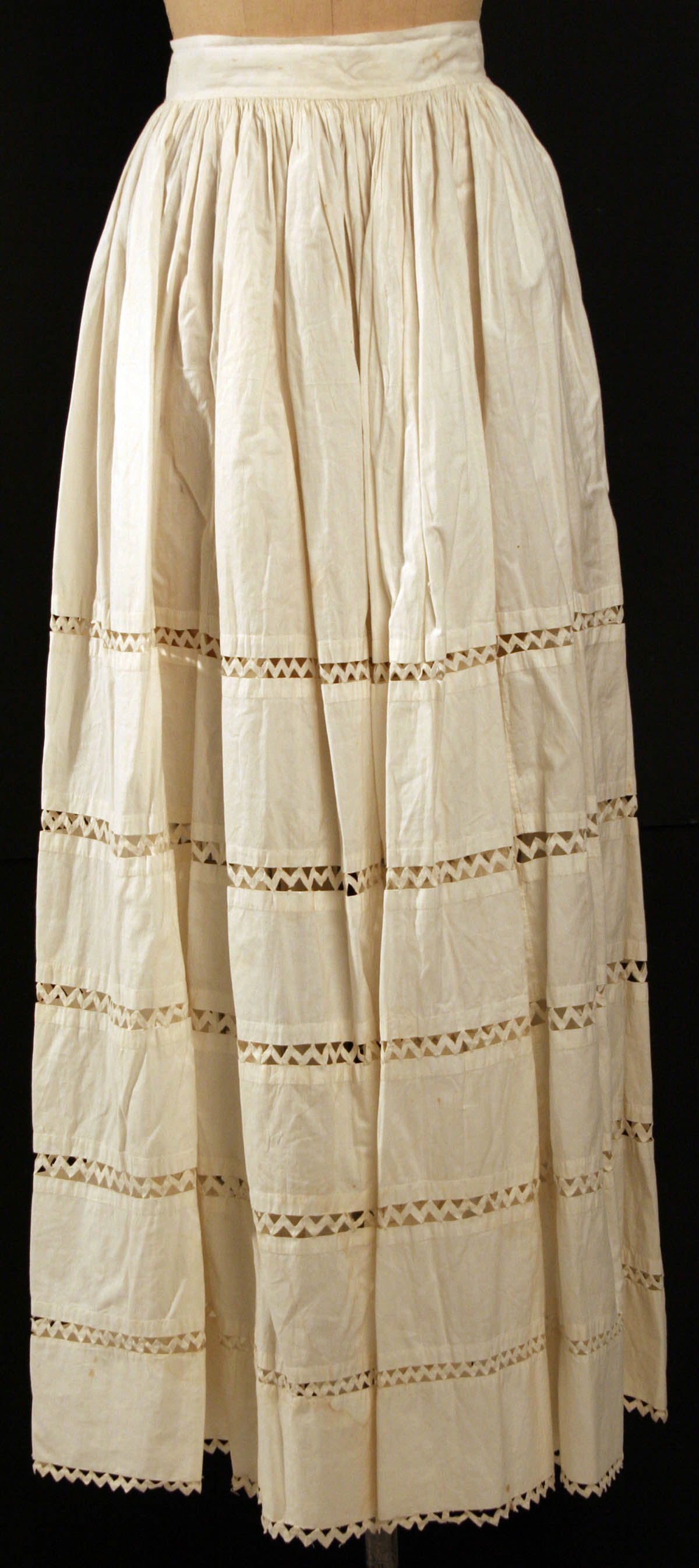 American or European; Petticoat